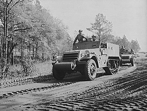 Halftrac scout cars at Fort Benning. America's irresistable might grows every day. Soldiers of the armored forces training in halftrac scout cars at Fort Benning, Georgia are turning rapidly into hard, smart fighting men.